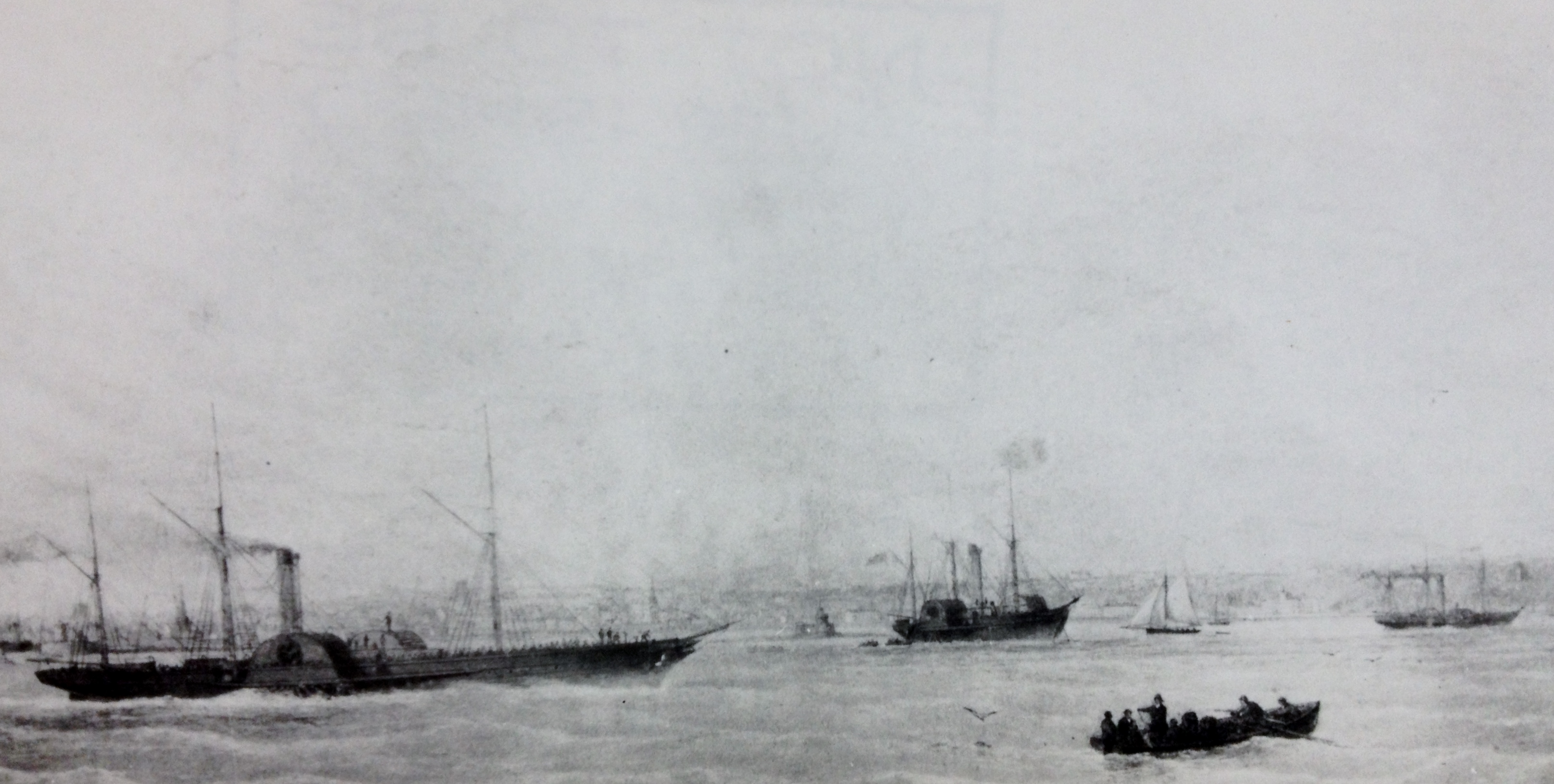 An 1856 drawing (artist unknown) of King Orry, Mona's Queen & Tynwald